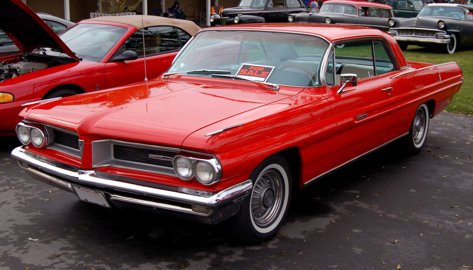 1962 Pontiac Grand Prix at the 22nd Goodguys Autumn Get-Together, Pleasanton, CA, 2011. 1962 was the first year for the Grand Prix badge; it was little more than a trim level of the Catalina this year.